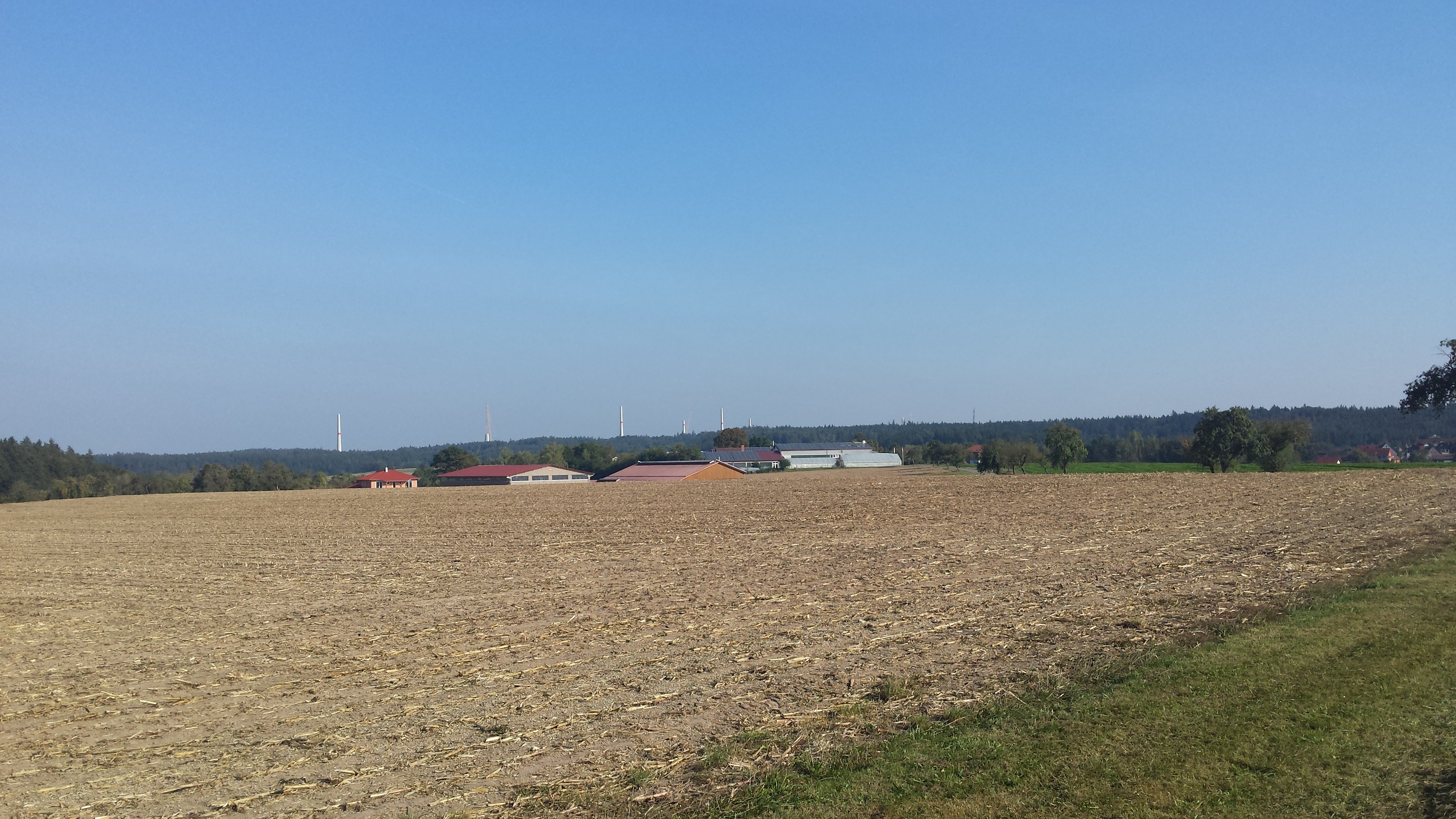 Stimpfach-Connenweiler-Rechenberg with the new wind farm "Ellwanger Berge" behind